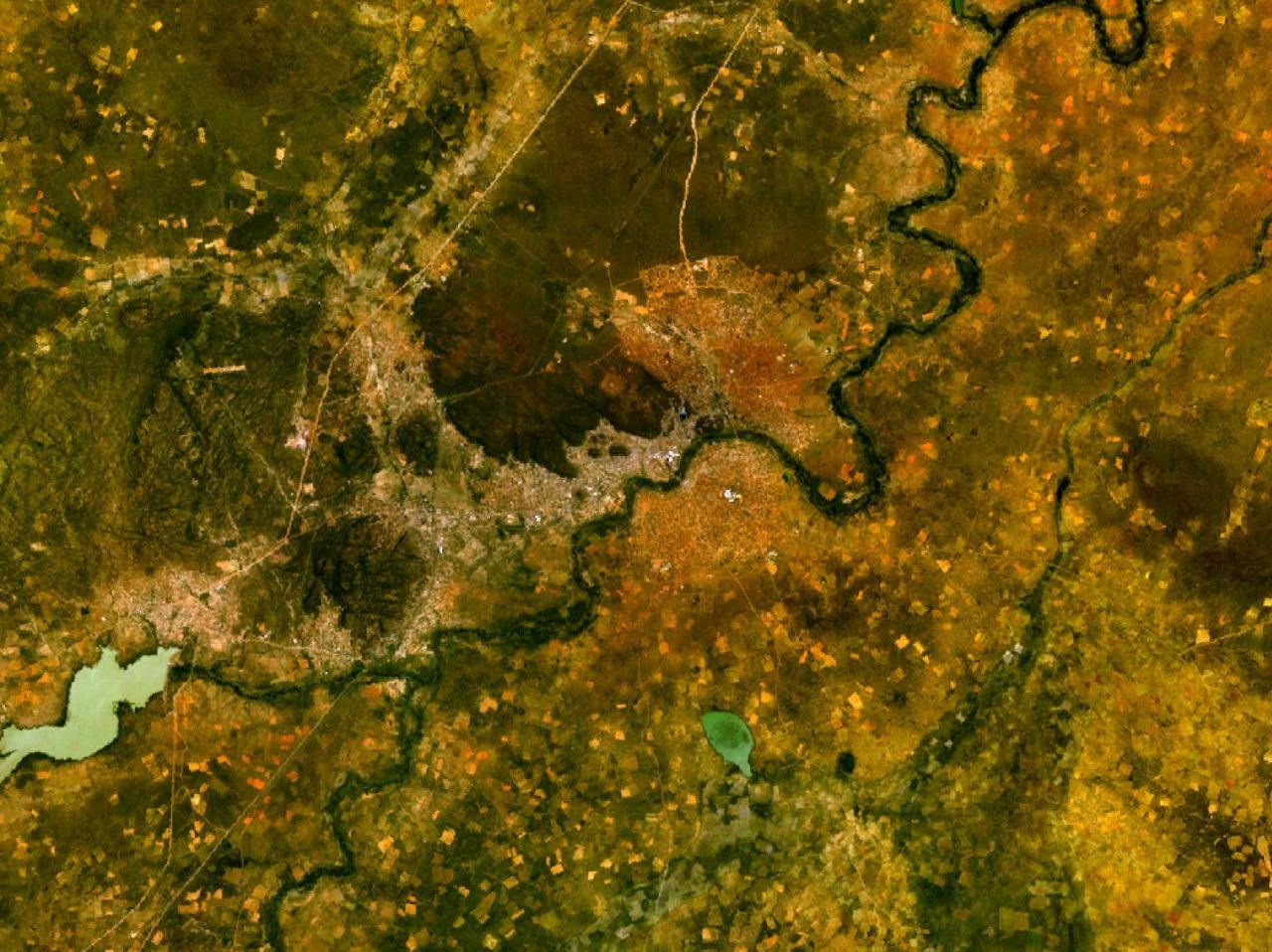 Mochudi, Botswana. Satellite view.